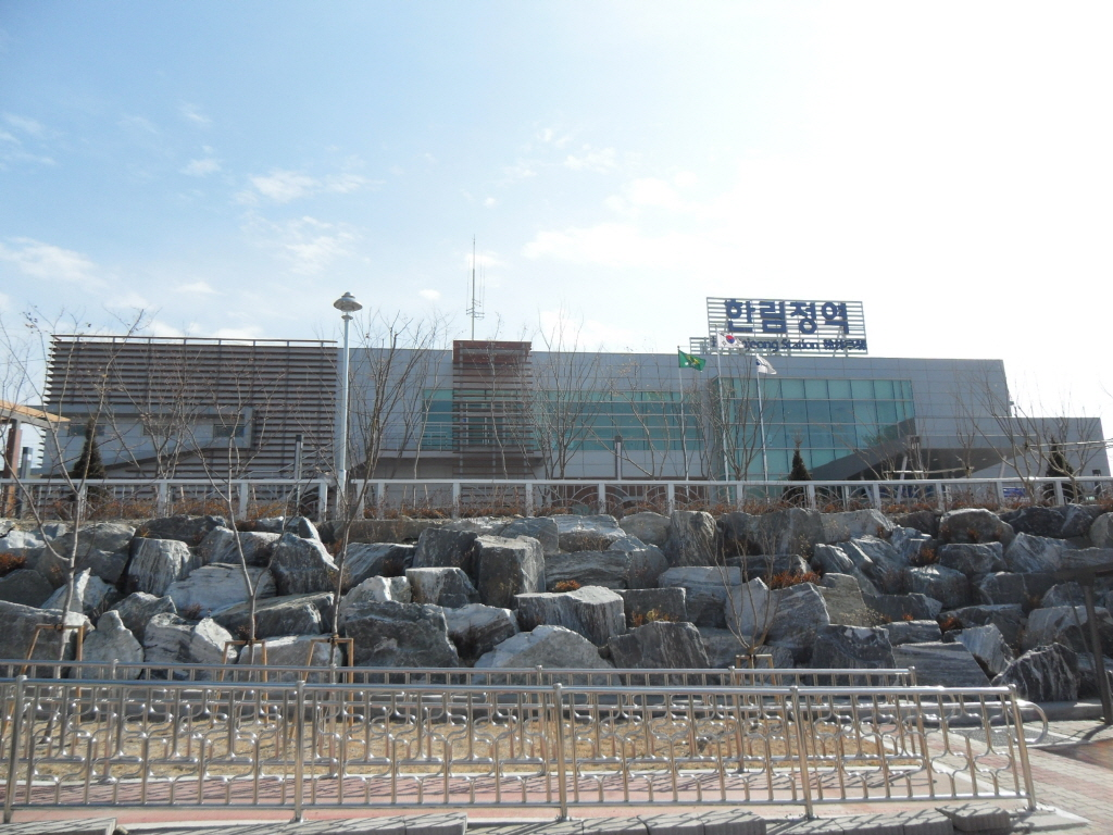 Korail Hallimjeong Station